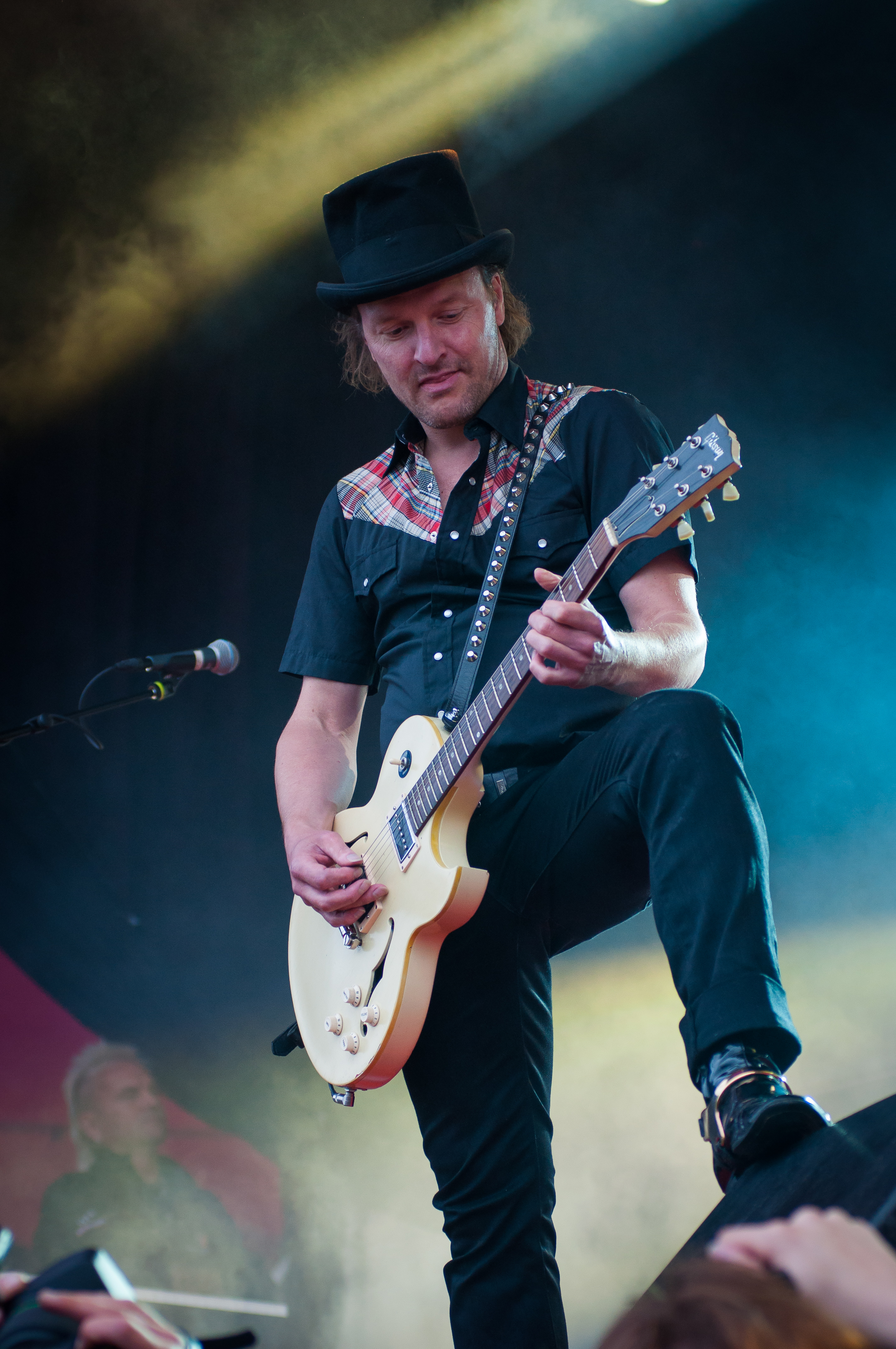 Danish guitarist Jacob Binzer of D-A-D performing at the 2012 Ilosaarirock festival in Joensuu, Finland.